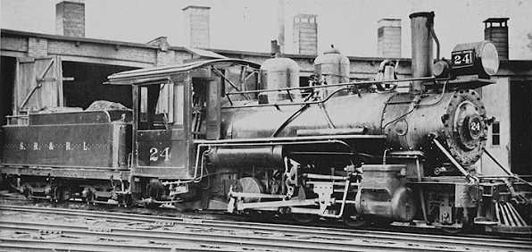 Sandy River No.24 was a 2 foot gauged locomotive built for the Sandy River & Rangeley Lakes Railroad Built at the Baldwin Locomotive Works of Philidelphia in the May of 1919 she was numbered 51803 at the works, during building baldwin made an error and the tender was built much to wide this was noticed as she first entered service at the Sandy River & Rangeley Lakes Railroad. The tender was a hazard as if you did not have enough water on board it would start to slosh from side to side on numerous ocasions causing problems. On July 10th 1919 the tender completley derailed and caused the trestle bridge to collapse most of the pulpwood cars were completley destroyed but fortuently the crew managed to gte by with only a few injuries. She was soon repaired and the tender was cut down to size so that she could run propely up until 1935 when the railway closed and she was sold to a rail fan for $250 but unfortuently he scrapped her some years later.